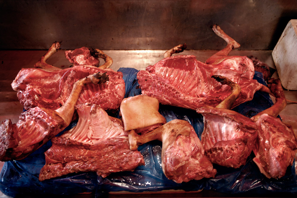 Dog Meat On Sale At Kyungdong Shijang Market, Seoul, Korea